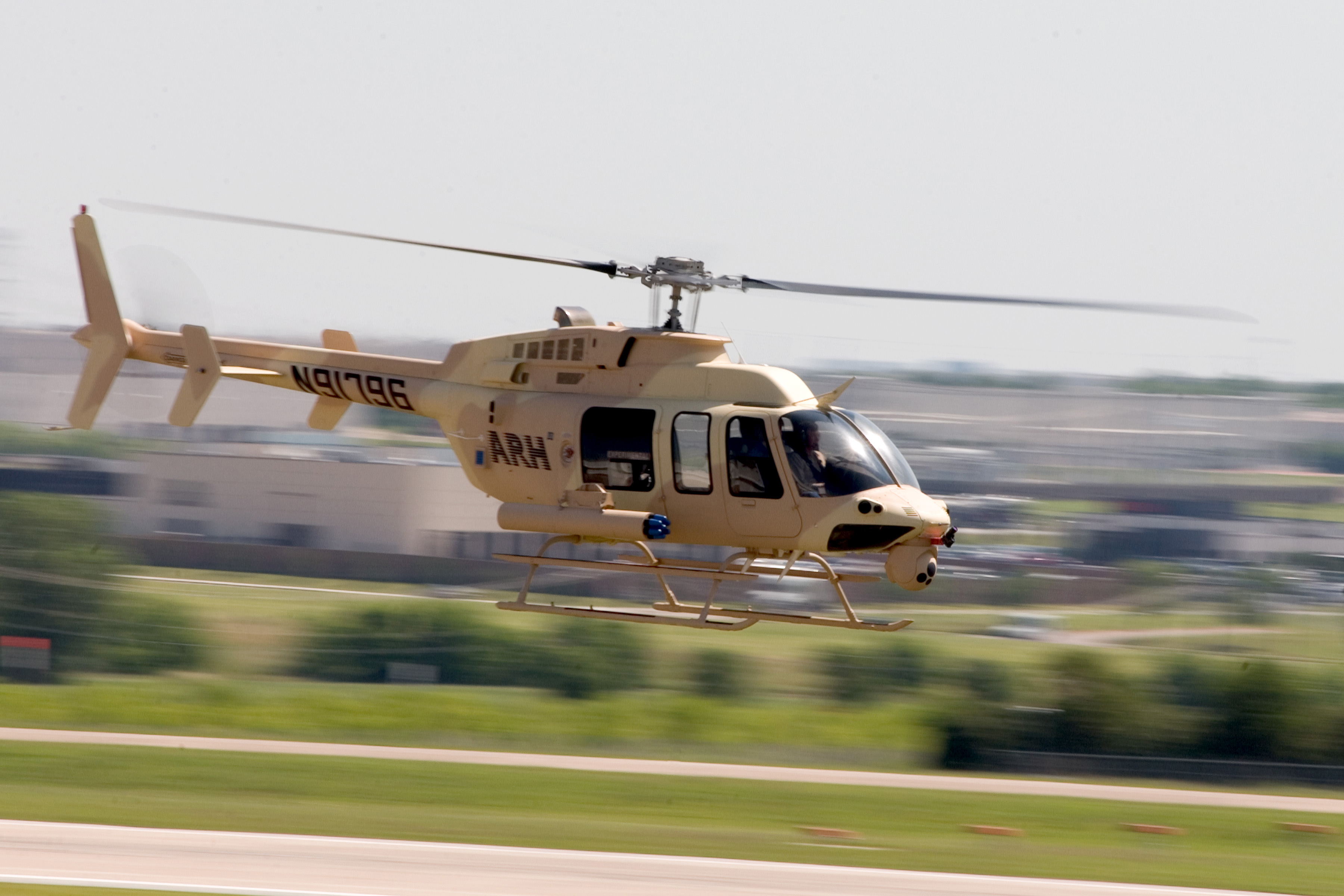 Picture of the ARH-70